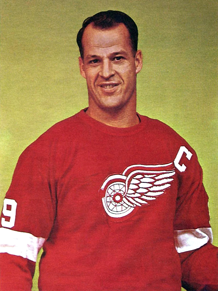 Trading card photo of Gordie Howe as a member of the Detroit Red Wings. These cards were printed on the backs of Chex cereal boxes in the US and Canada from 1963 to 1965. Those collecting the cards cut them from the back of the boxes. Howe's card at PSA.